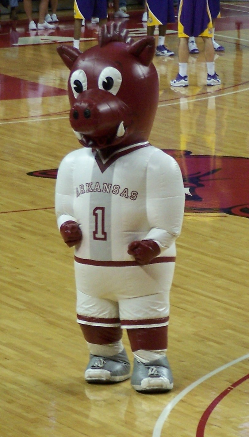 Boss Hog, a nine foot tall inflatable mascot affiliated with the University of Arkansas entertains fans at a men's basketball game against the LSU Tigers in Bud Walton Arena, Fayetteville, Arkansas.